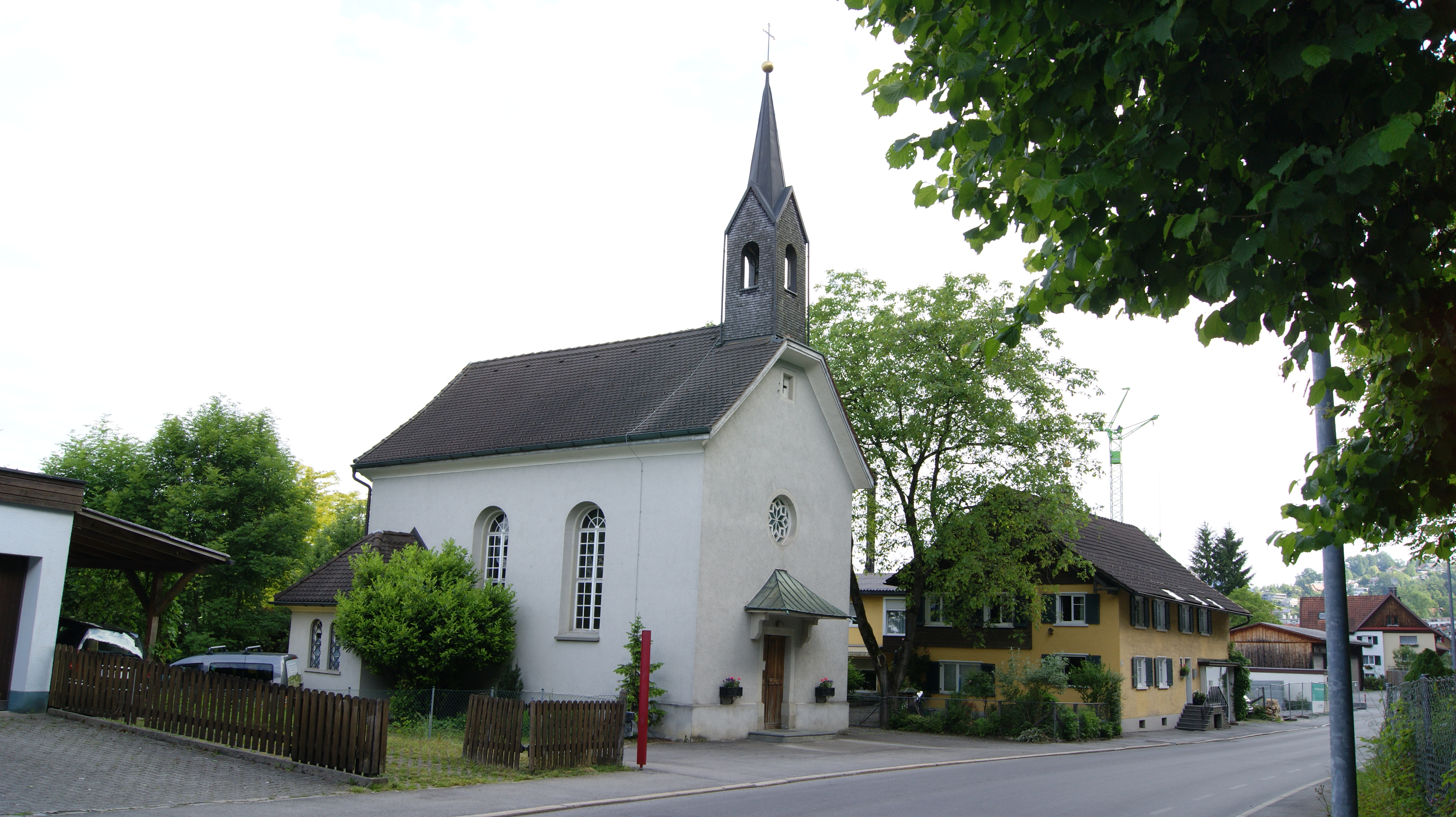 Chapel of the Holy Trinity and 14 helpers (Haselstauden) Kehlerstraße no 75a (Kehlen) in Dornbirn, Vorarlberg, Austria. View from the South.